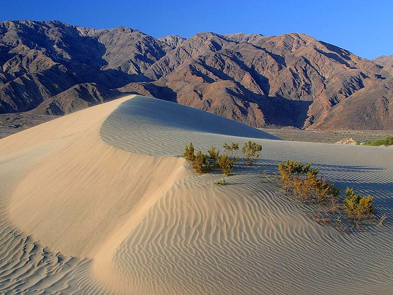 Image title: Death Valley sand dunes Image from Public domain images website